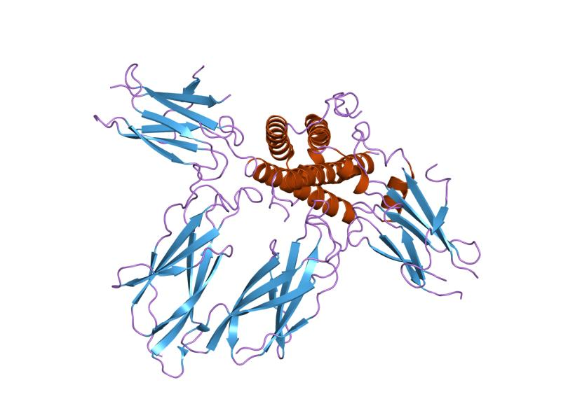 Cartoon representation of the molecular structure of protein registered with 3hhr code.